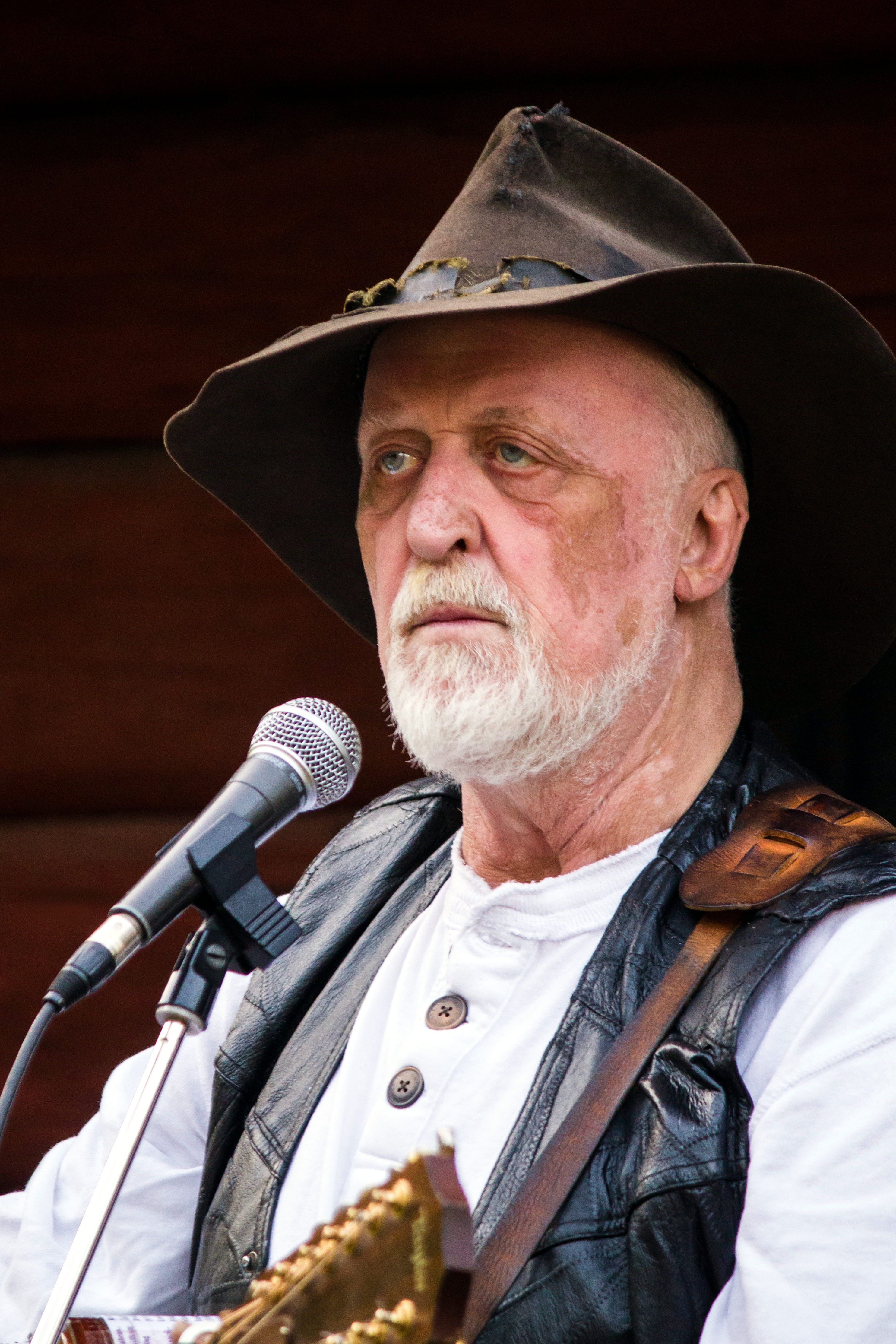 Entertainer Ewert Ljusberg performs at Hedemora local heritage centre, Sweden.